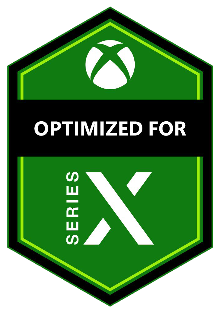 The branding for Xbox games that are optimized for play on the Xbox Series X